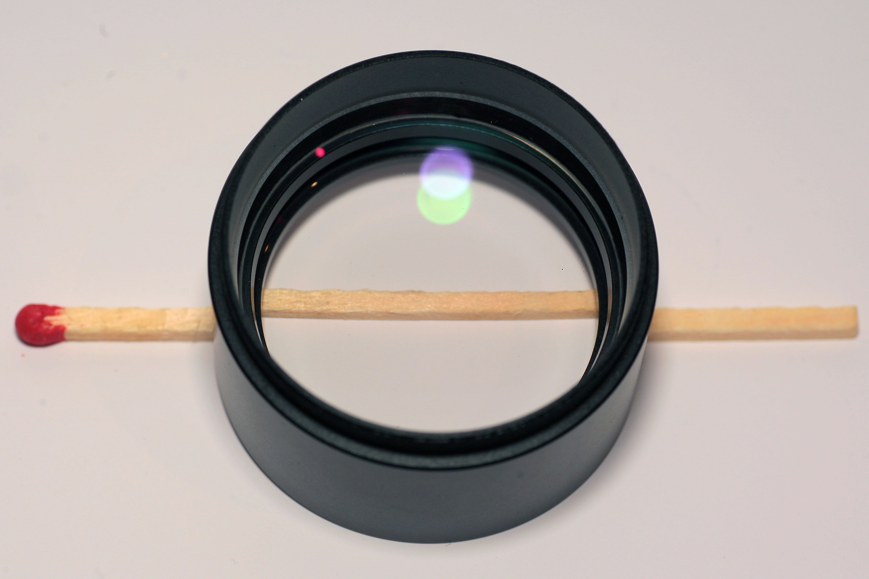 A Flattener is a correctional element for photograhy, esp. for astronomy.